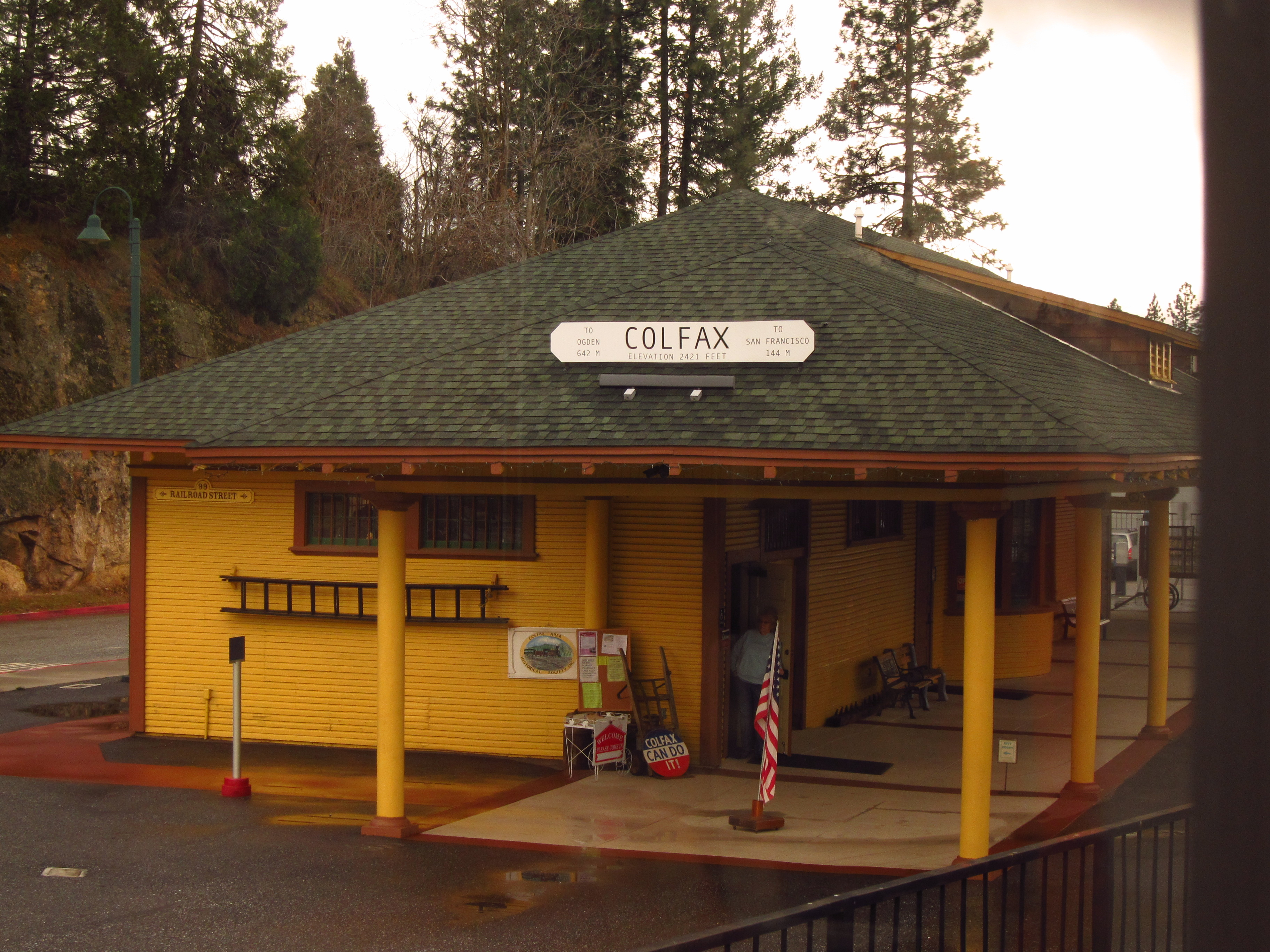 Amtrak train station in Colfax, CA